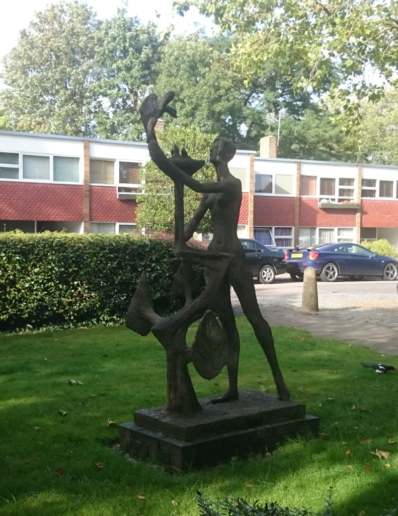 Pastorale by Keith Godwin at Parkleys, Ham, London. The sculpture was commissioned by Span Developments and unveiled in 1956 by Sir Hugh Casson.